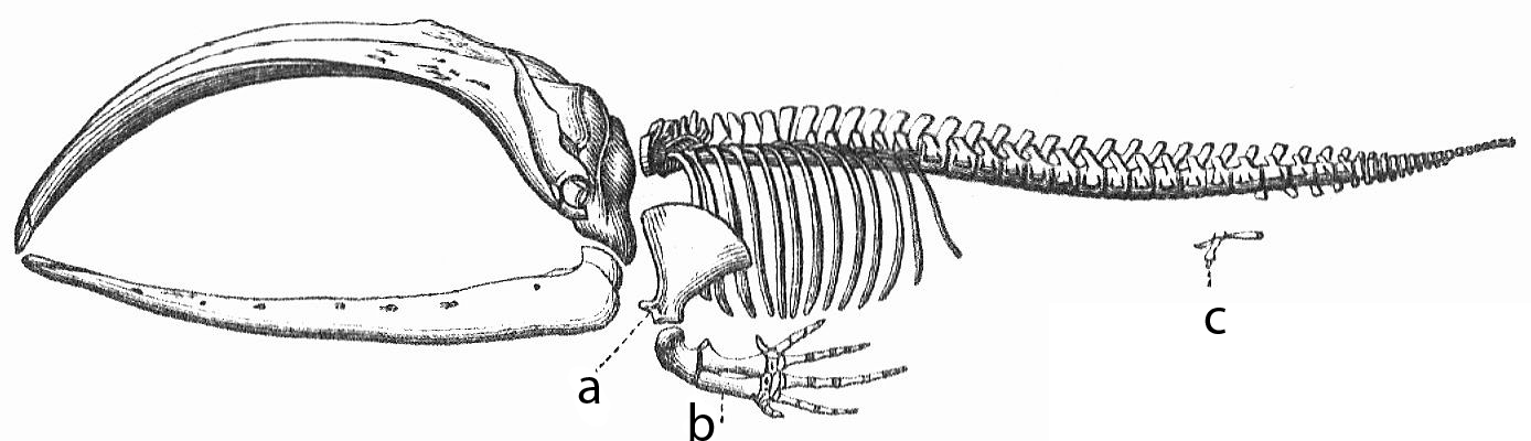 Skelett of a baleen whale (a - omoplate, b - foreleg, c - rest of hind leg)